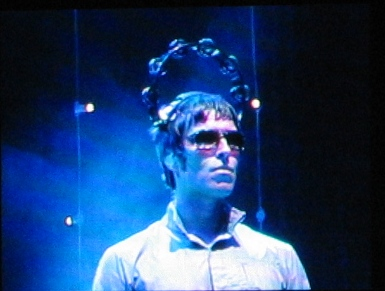 Liam Gallager performing at an Oasis concert at Shoreline Amphitheatre in Mountain View, California, September 11, 2005